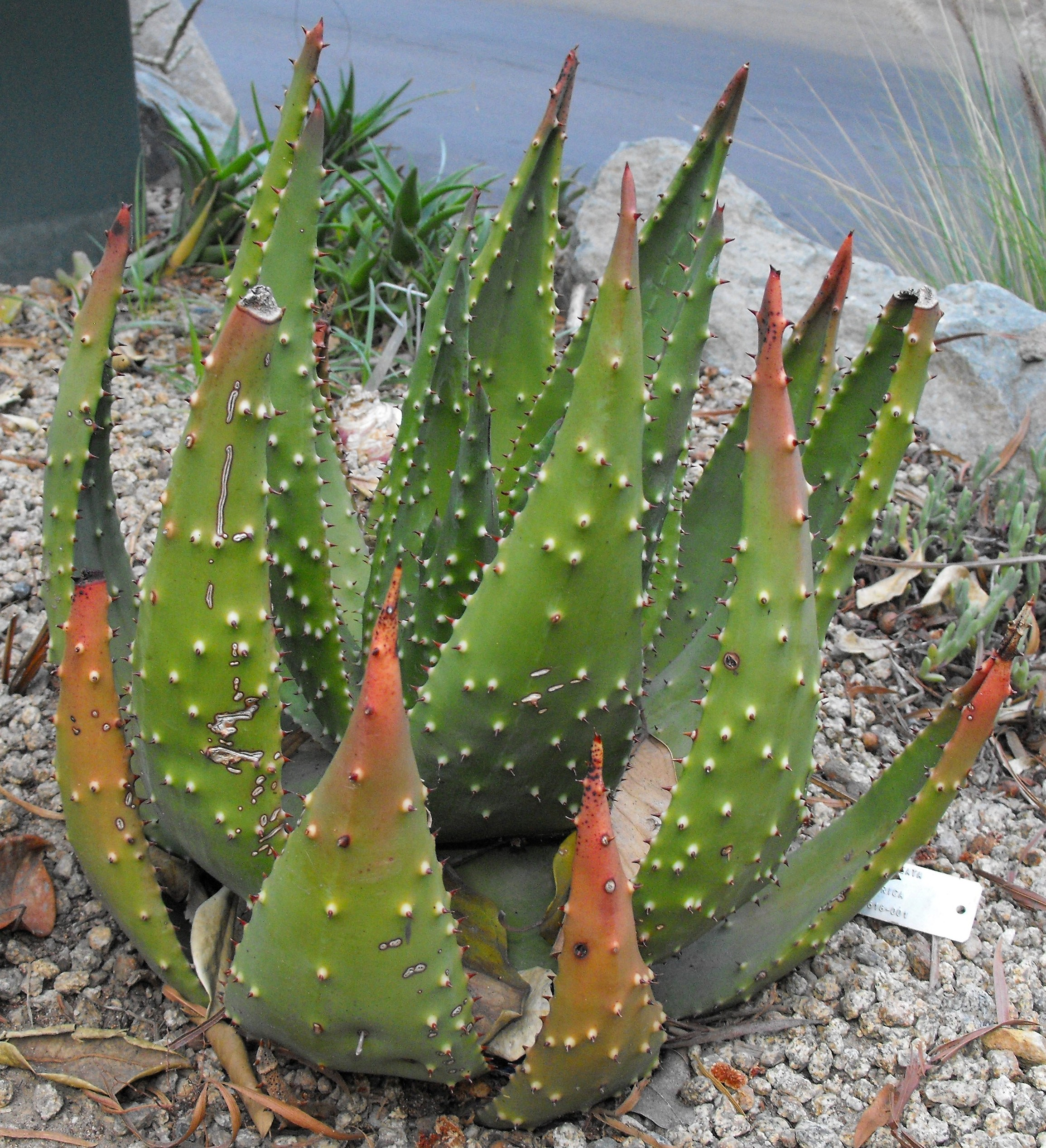 Aloe aculeata at the San Diego Zoo, California, USA. Identified by sign.